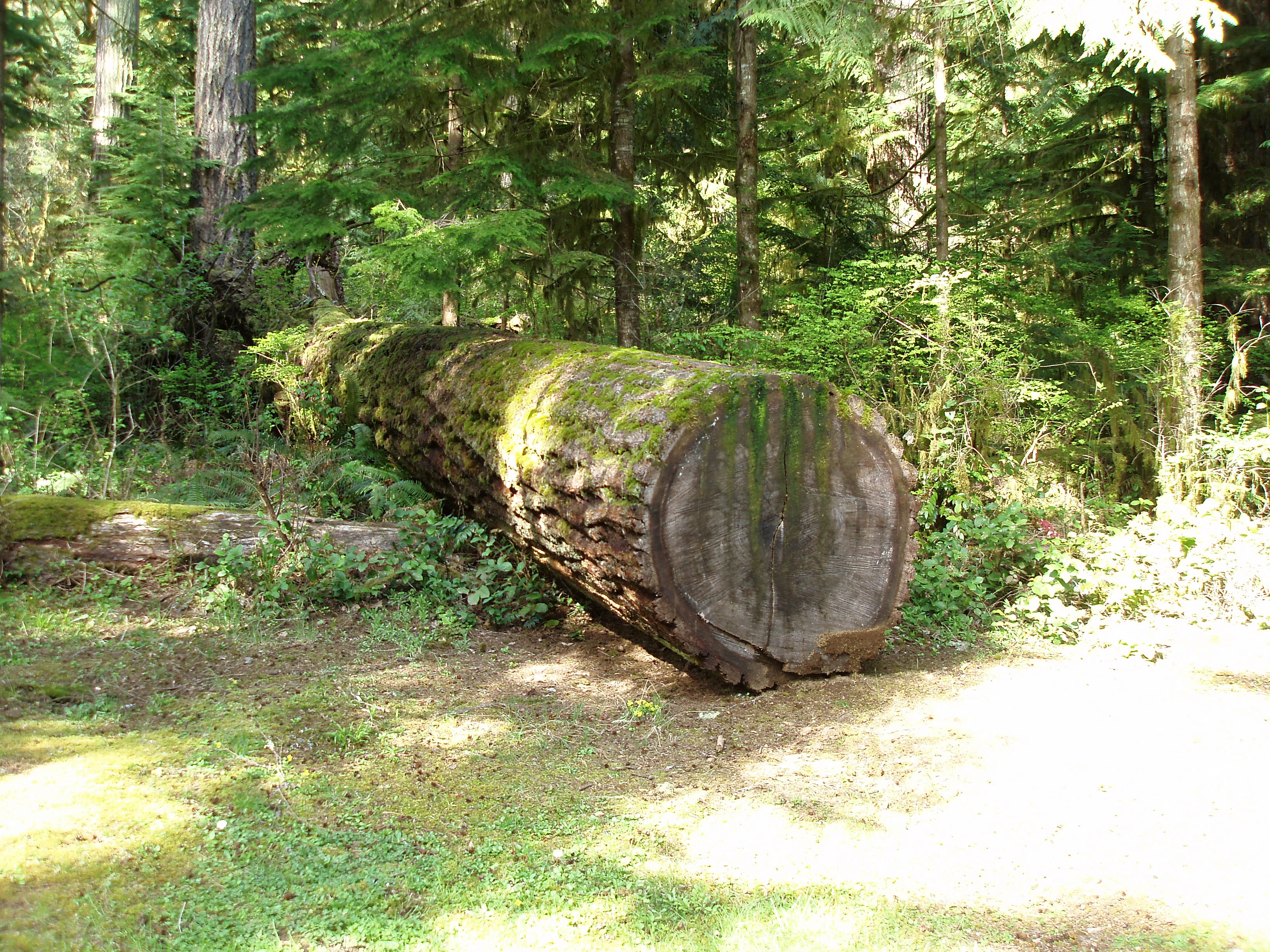 Fallen tree is Nurse log. Camping in Rockport State Park is closed at the moment because the state is afraid the old growth trees will fall on people. That's awesome. I can see why.